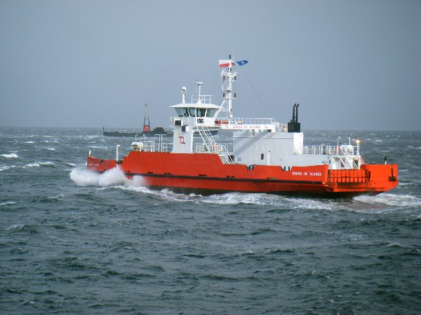 MV Sound of Scarba after leaving Western Ferries' McInroy’s Point terminal, near Gourock, with MV Jupiter in the background.